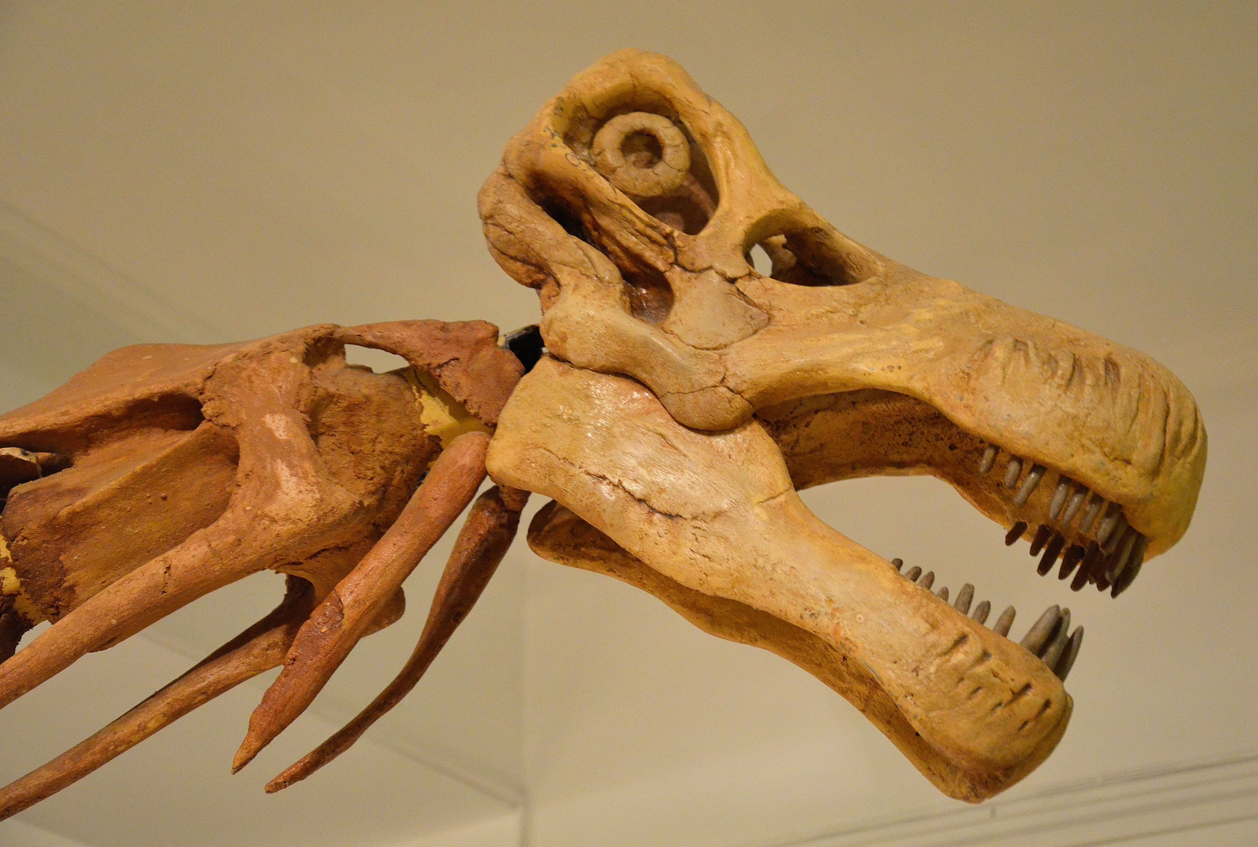 Cast of the skull of Nemegtosaurus, on a mounted Opisthocoelicaudia skeleton, Museum of Evolution of Polish Academy of Sciences, Warsaw